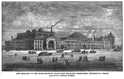 Mechanics Hall, Huntington Ave., Boston MA